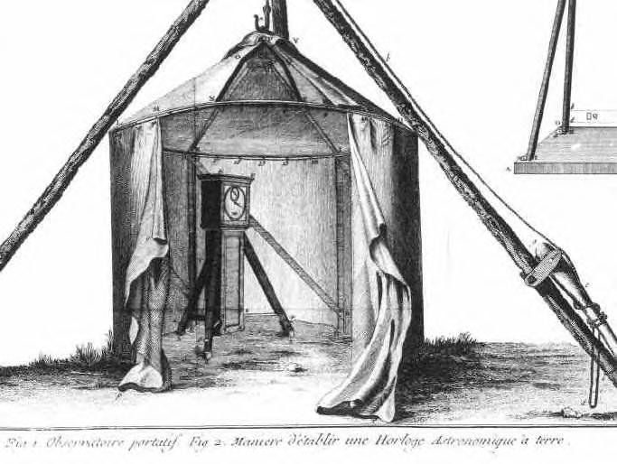 Engraving of a mobile astronomical observatory, ("Observatoire portatif")